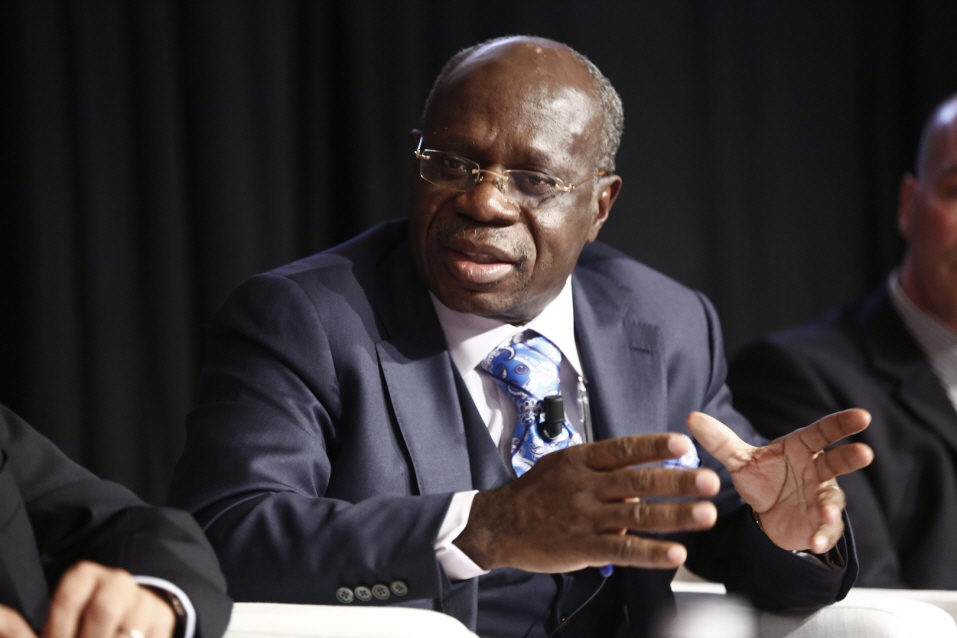 Business